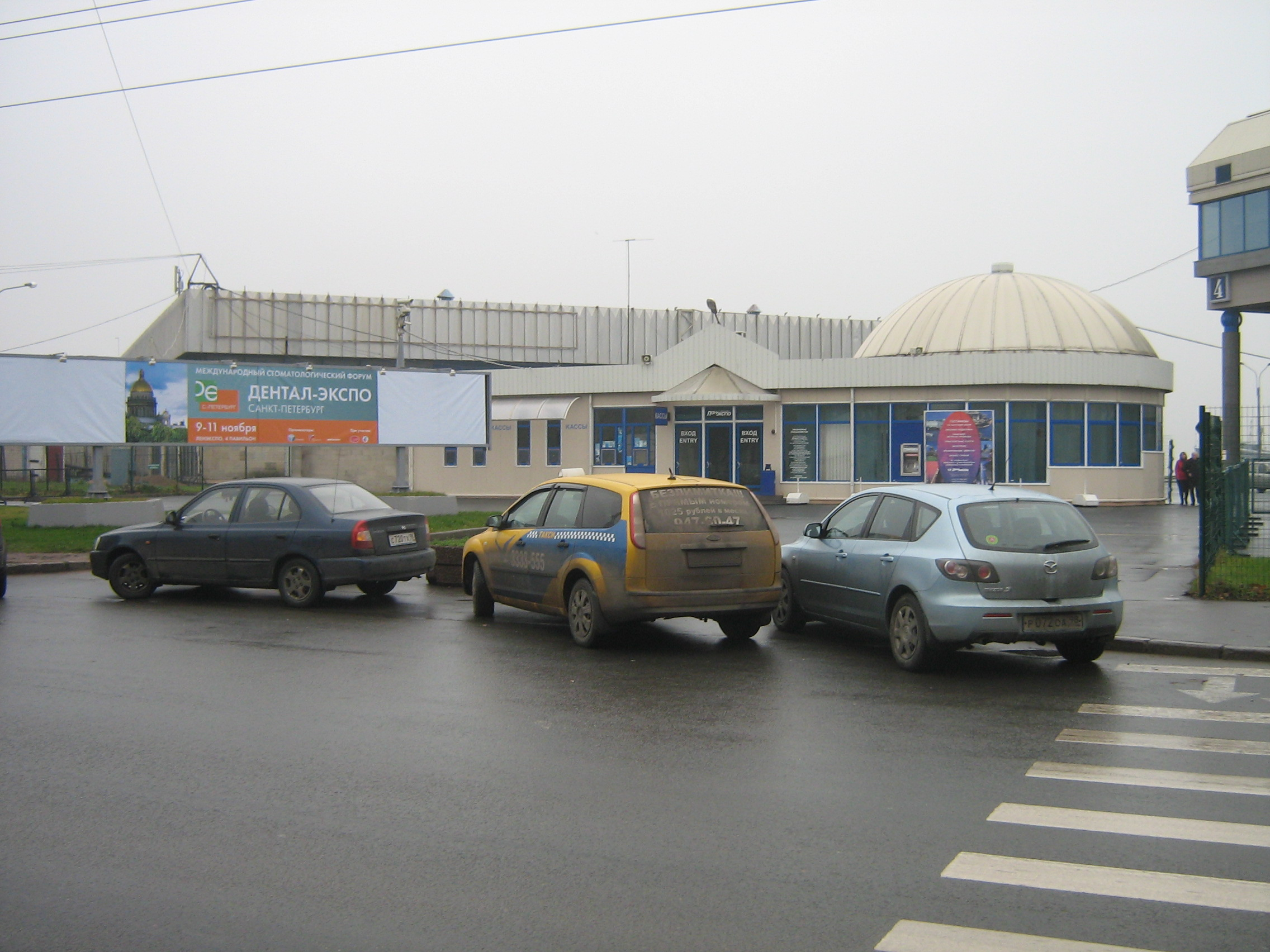 Saint Petersburg (Russia), Vasilievsky Island